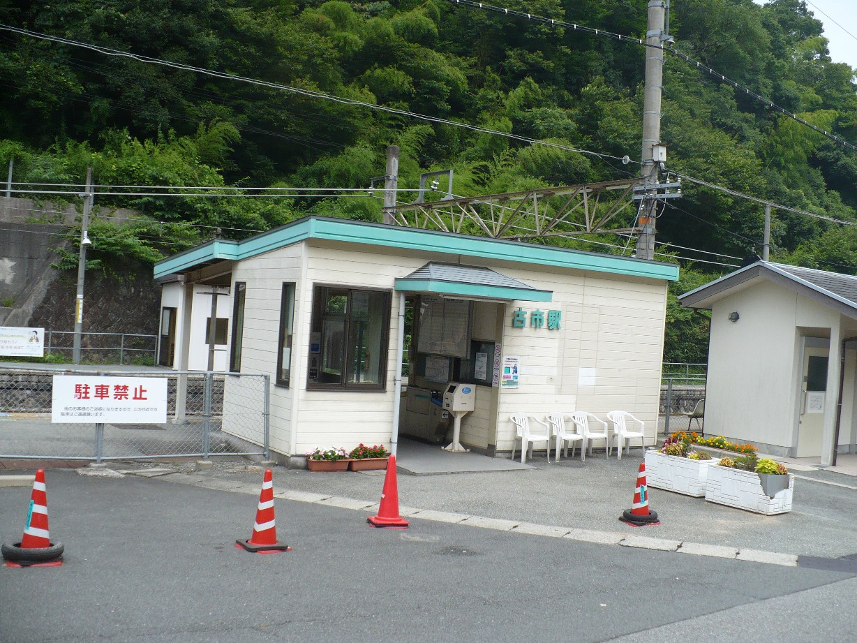 Station building of Furuichi Station on West Japan Railway Company Fukuchiyama Line, in Sasayama City, Hyogo Prefecture, Japan